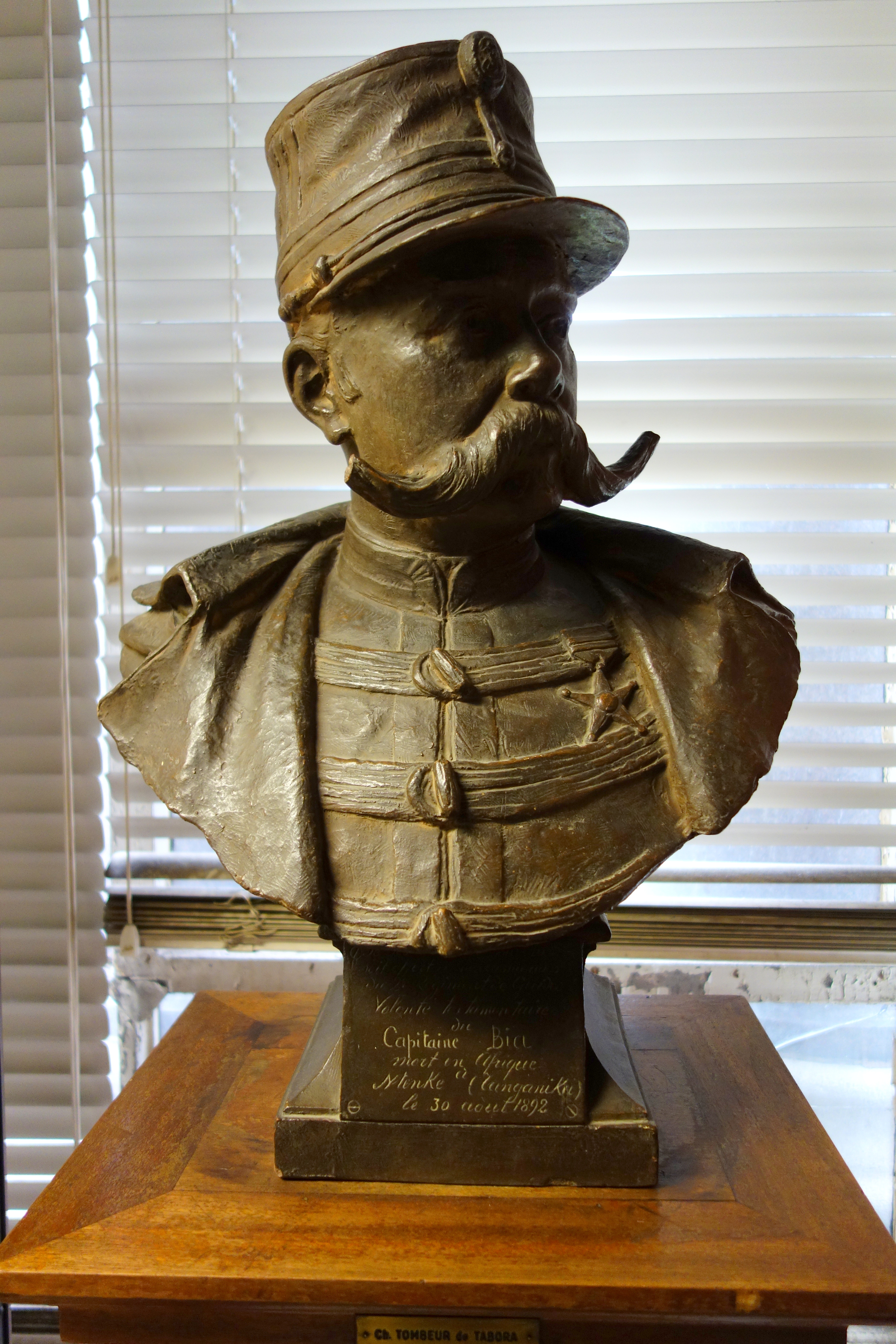 Exhibit in the Royal Museum for Central Africa, Tervuren, Belgium. This object is old enough so that it is in the public domain.